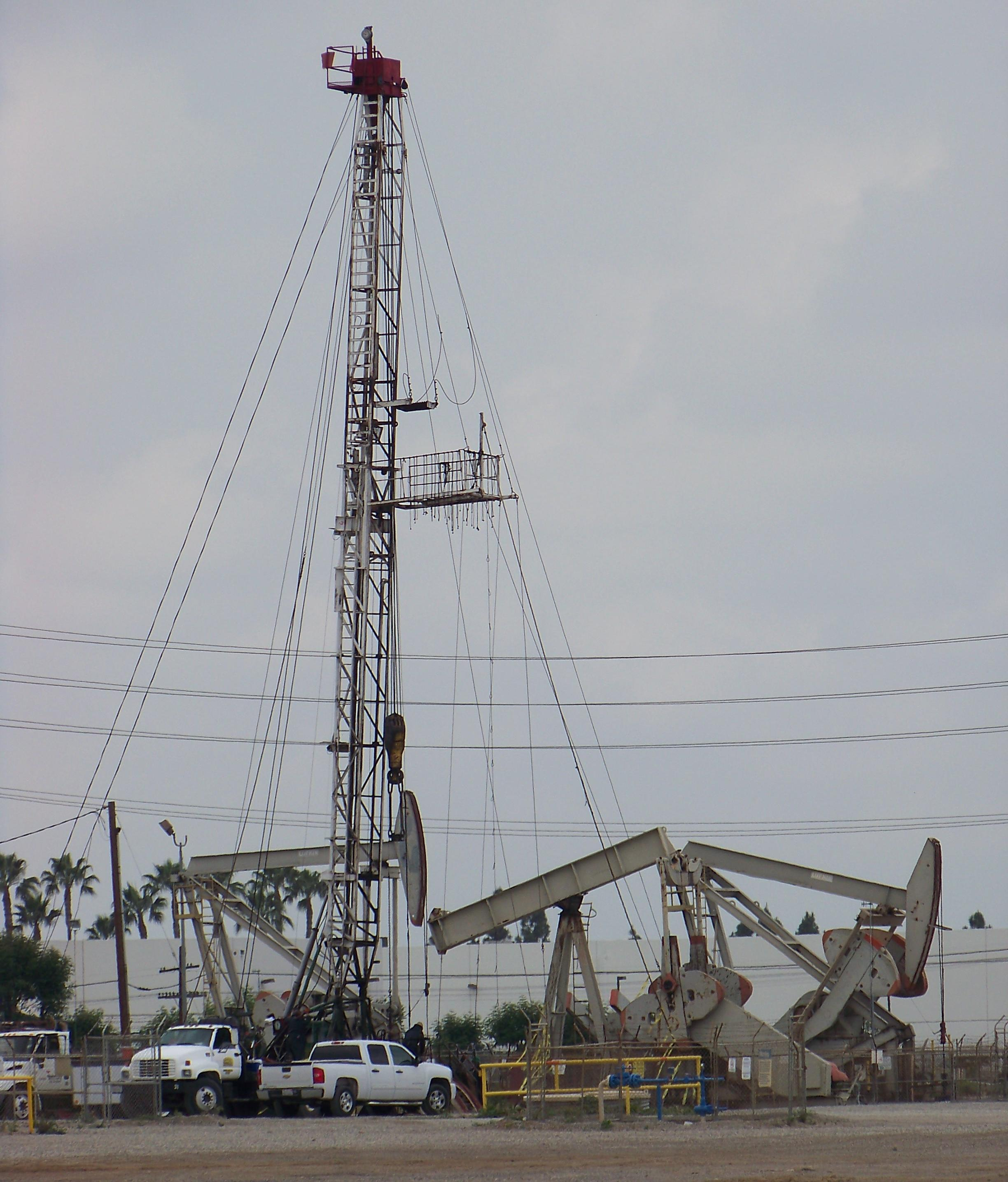 Santa Fe Springs, California, drill some more.